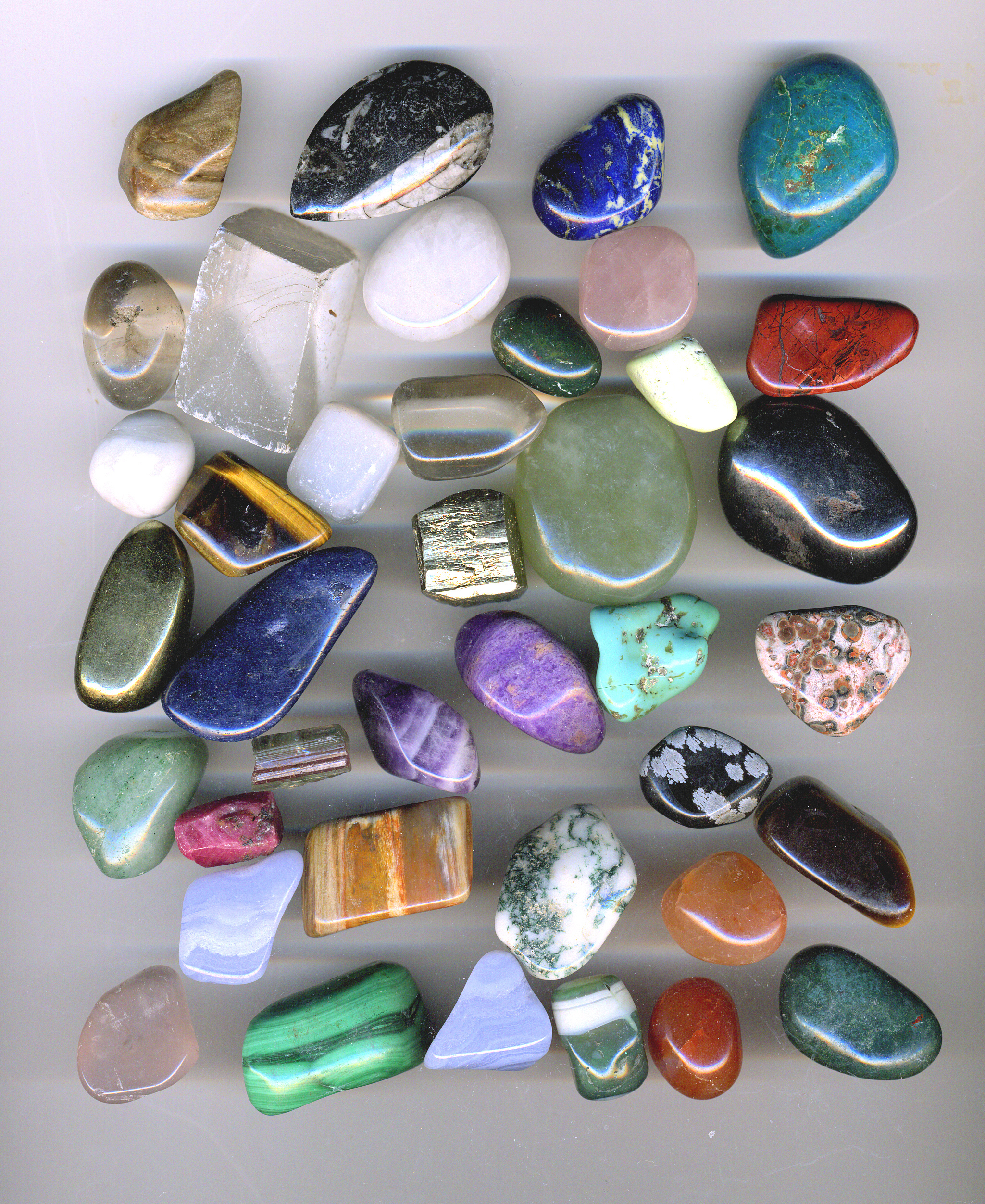 Tumbled gemstones, scanned on an Epson flat bed scanner. This is not a photograph! Note that four of the items in the picture are not tumbled: the red ruby crystal at bottom left, below the big blue pebble the pale green and red tourmaline crystal, above and to the right of the ruby the golden-coloured pyrite cube, exactly in the centre the transparent calcite rectangle at top left Scanned by Adrian Pingstone in March 2009 and placed in the public domain.